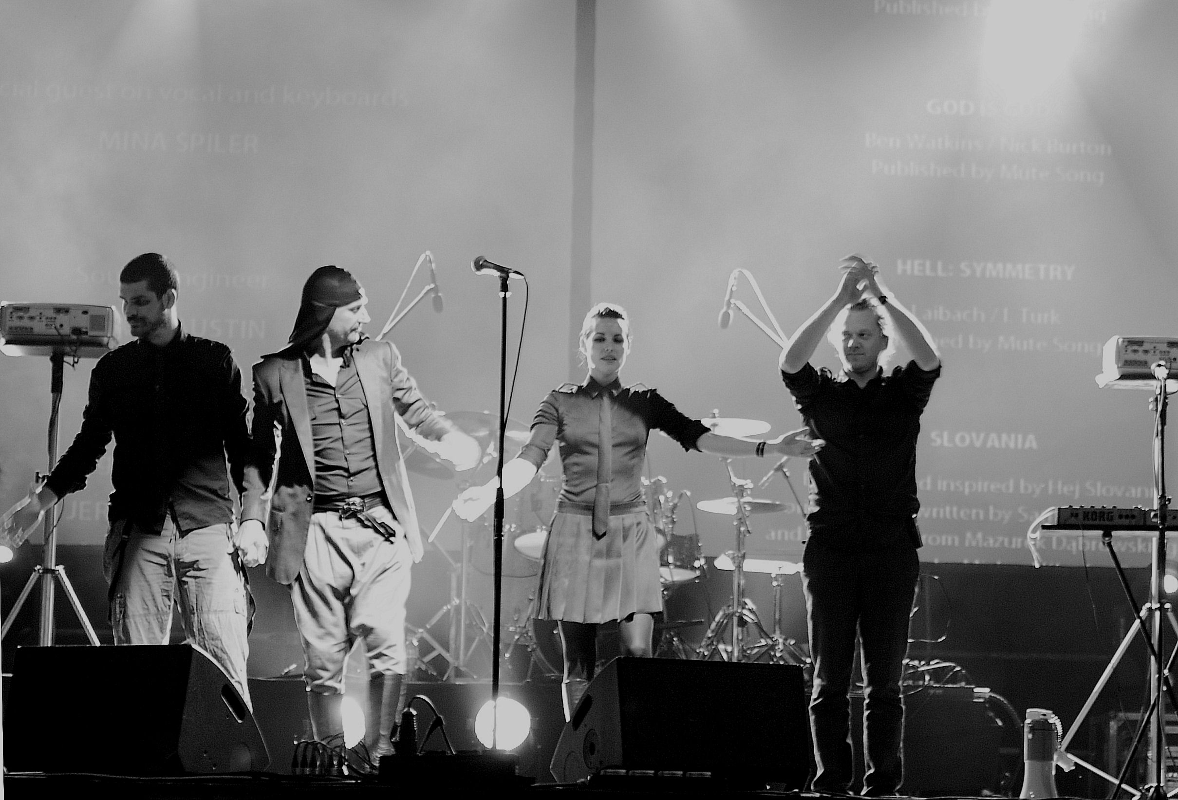 Taking of this photo was in cooperation with wRacku Festiwal